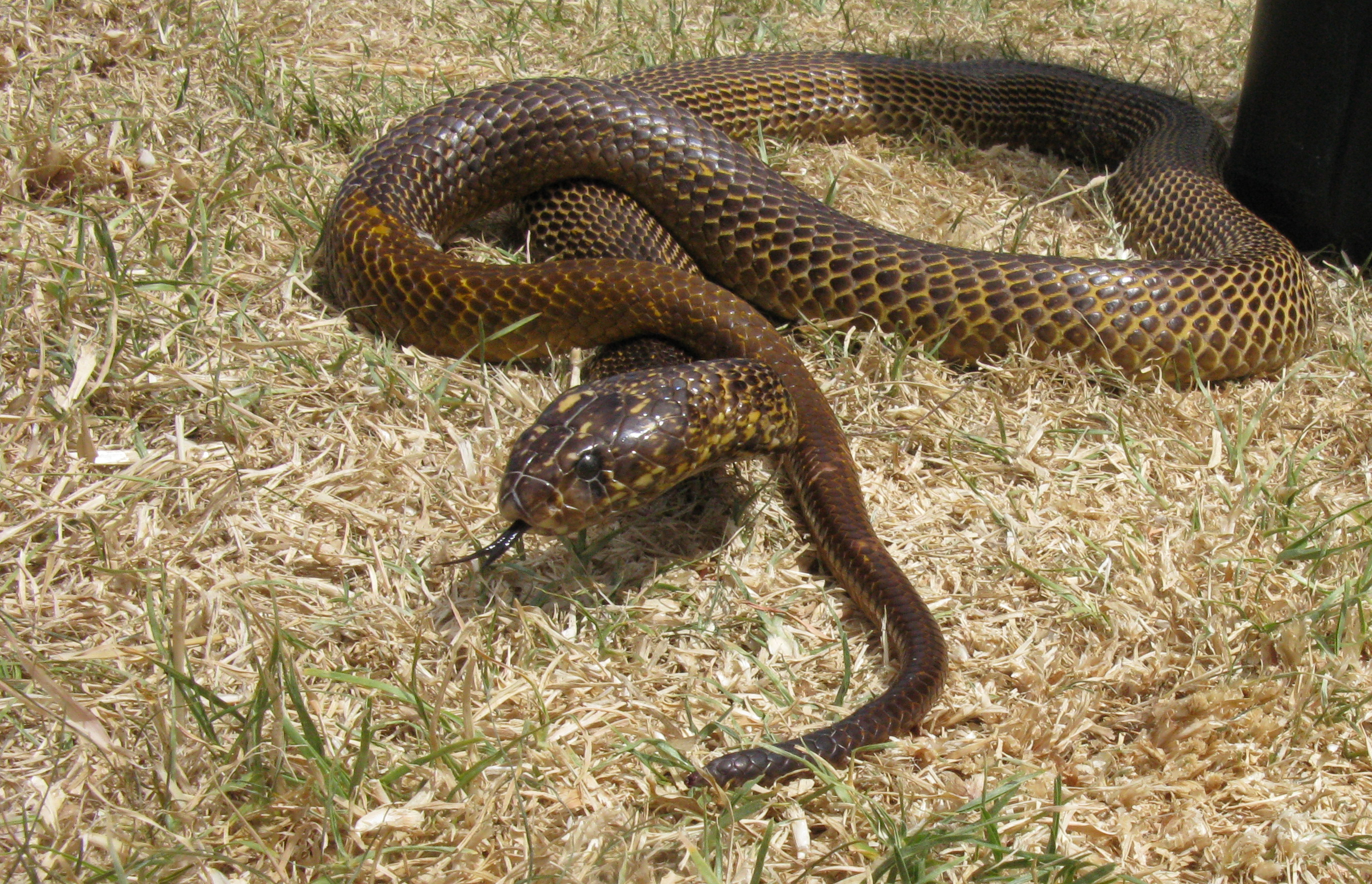 Cape cobra, Naja nivea in a dark brown speckled pattern. Fairly common. This particular snake is sufficiently aroused to be testing the air with its tongue, but not enough to display a fully spread hood.